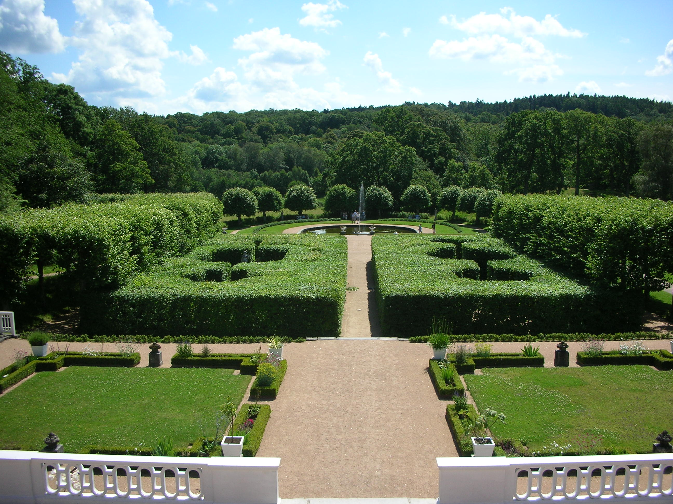 The French park at Gunnebo Castle in Mölndal, Sweden.